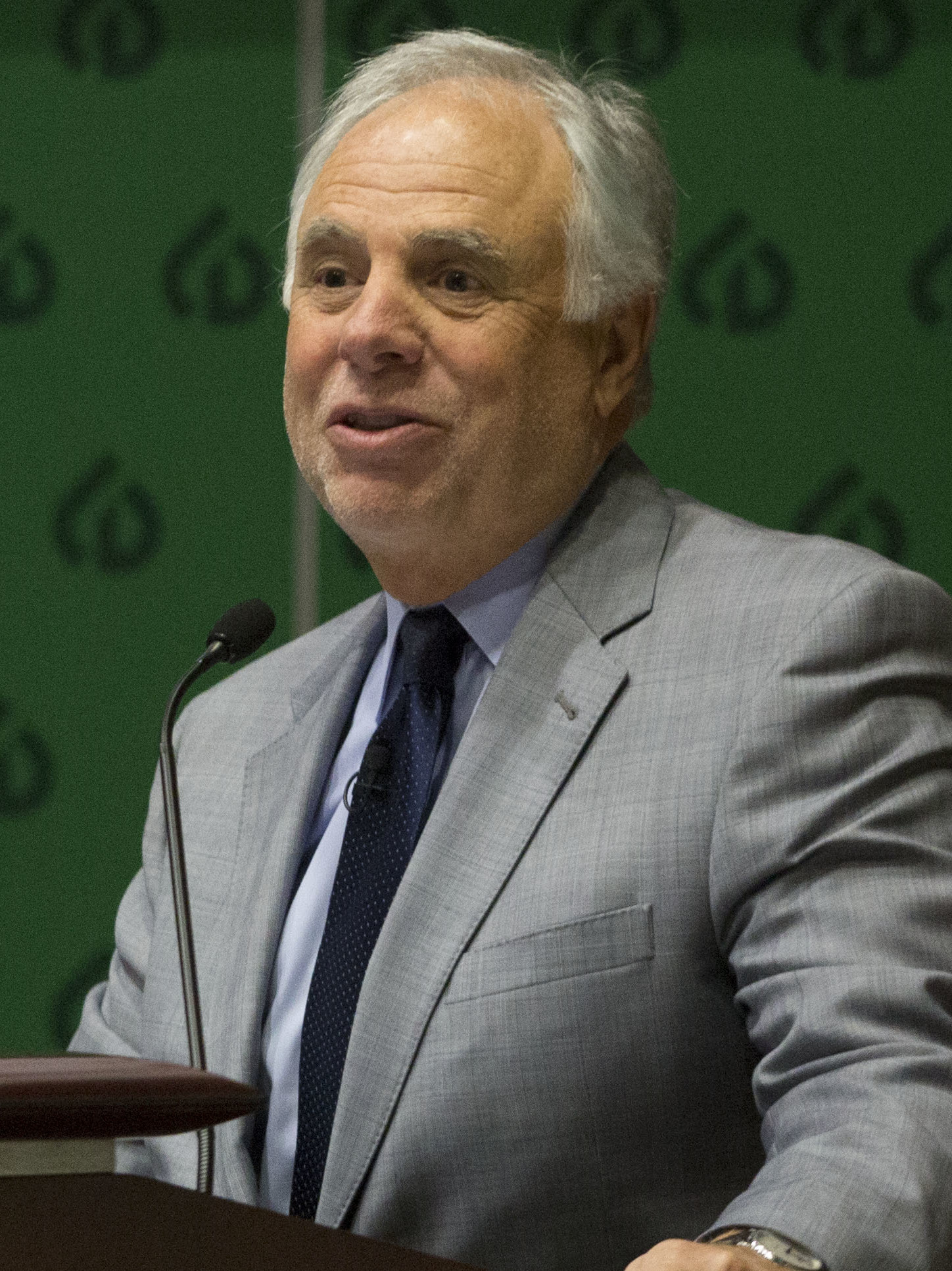 COD President Dr. Ann Rondeau, Illinois Supreme Court Justice Robert R. Thomas and Area Leaders Unveil Exhibit, on Display at the Glen Ellyn Campus Through Oct. 26